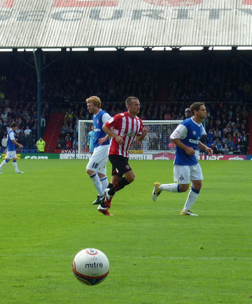 Michael Doyle for Sheffield United